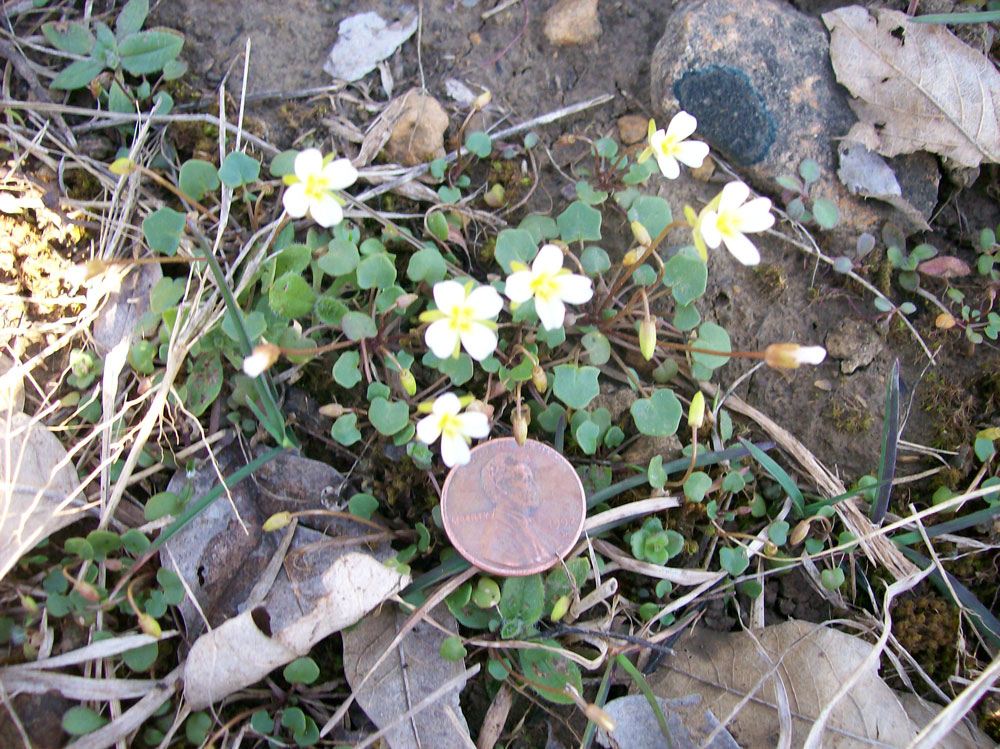 Leavenworthia exigua var. laciniata in Jefferson County, Kentucky, USA This image or recording is the work of a U.S. Fish and Wildlife Service employee, taken or made as part of that person's official duties. As a work of the U.S. federal government, the image is in the public domain. For more information, see the Fish and Wildlife Service copyright policy.